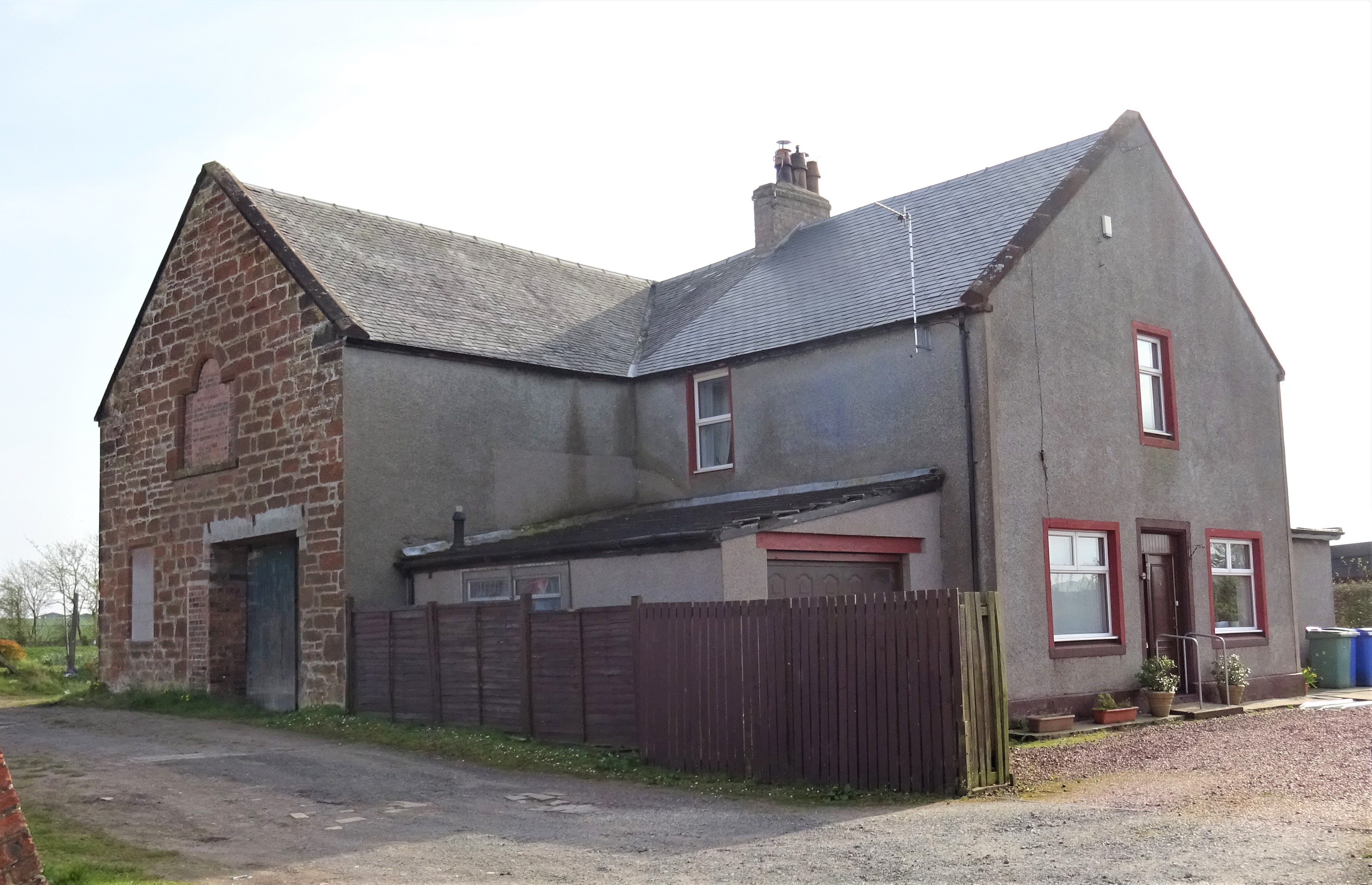 The old Free Church, Tarbolton, South Ayrshire, Scotland. Alexander Tait was instrumental in it being constructed as a Secession Church.